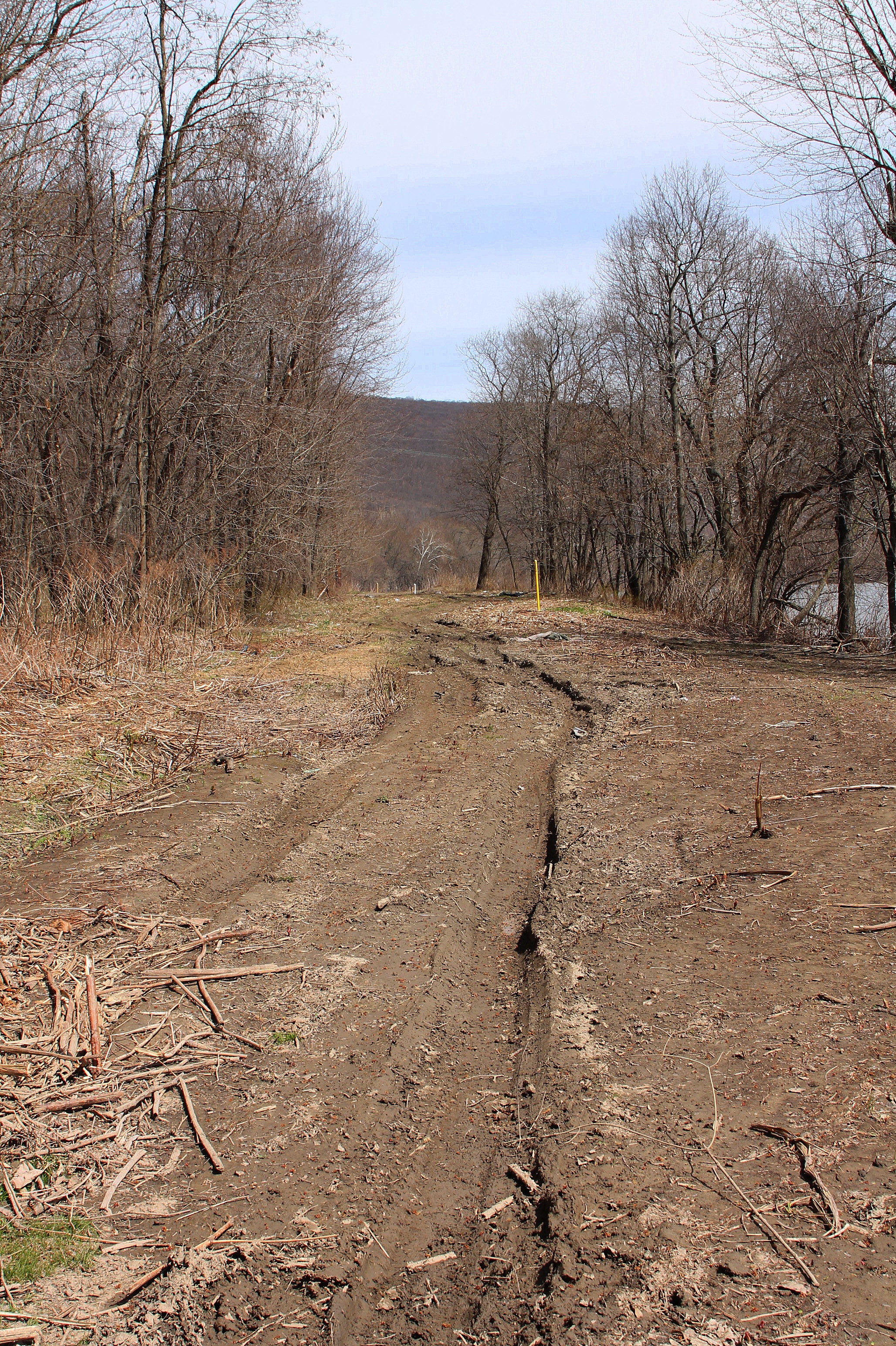 A very poorly-maintained section of the Susquehanna Warrior Trail just north of the Pennsylvania Route 239 bridge and just south of Shickshinny.